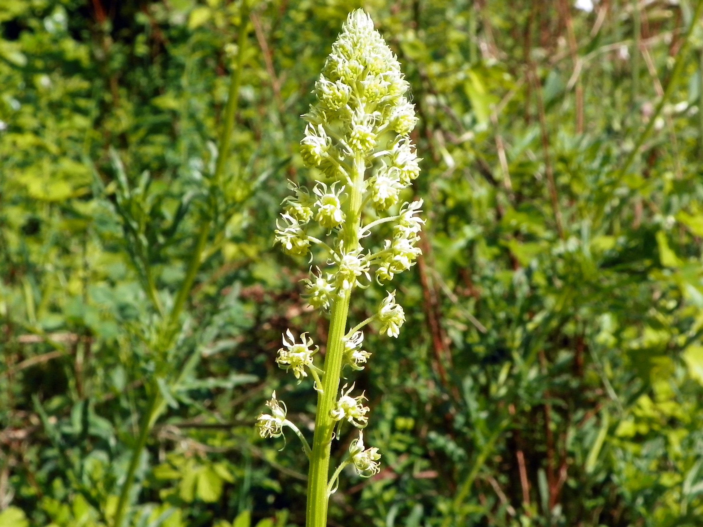 Wild Mignonette (Reseda lutea), Fairlands Valley Park, Stevenage, 24 May 2011.